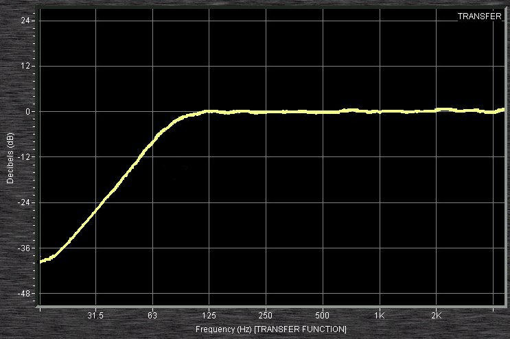 75 Hz high pass filter from an input channel of a Mackie 1402 mixer as measured in transfer function mode on Smaart software. Filter is indicated on the mixer to have a slope of 18 dB per octave.